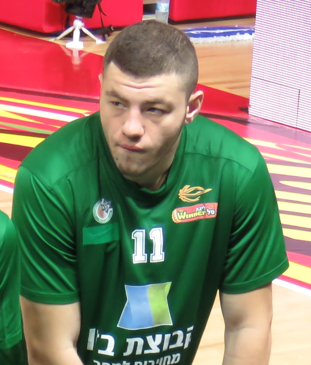 Hapoel Eilat vs. Maccabi Haifa B.C., 25 September, 2015